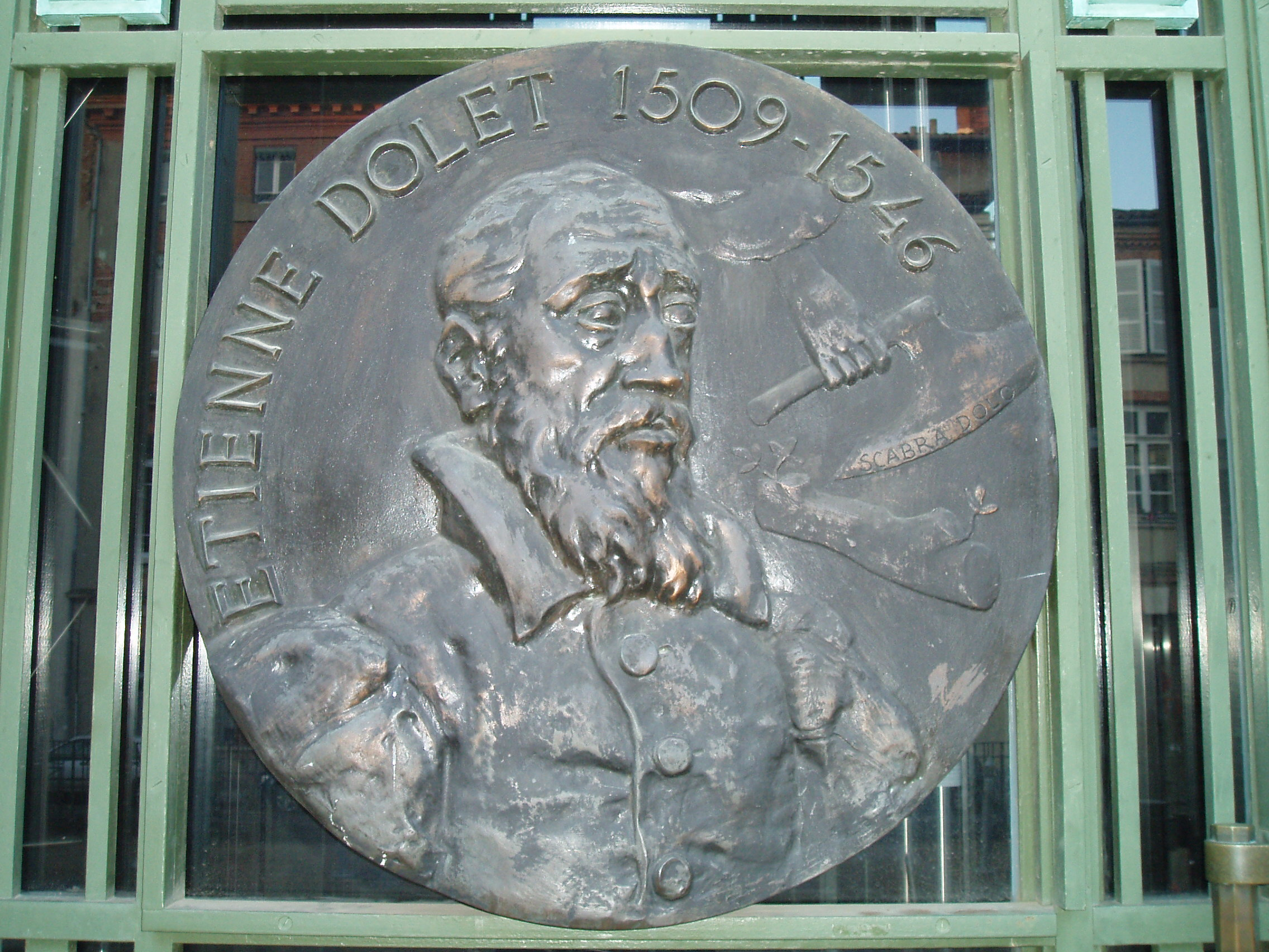 photograph of Etienne Dolet medallion from the door of the public library, rue de Périgord, Toulouse, France